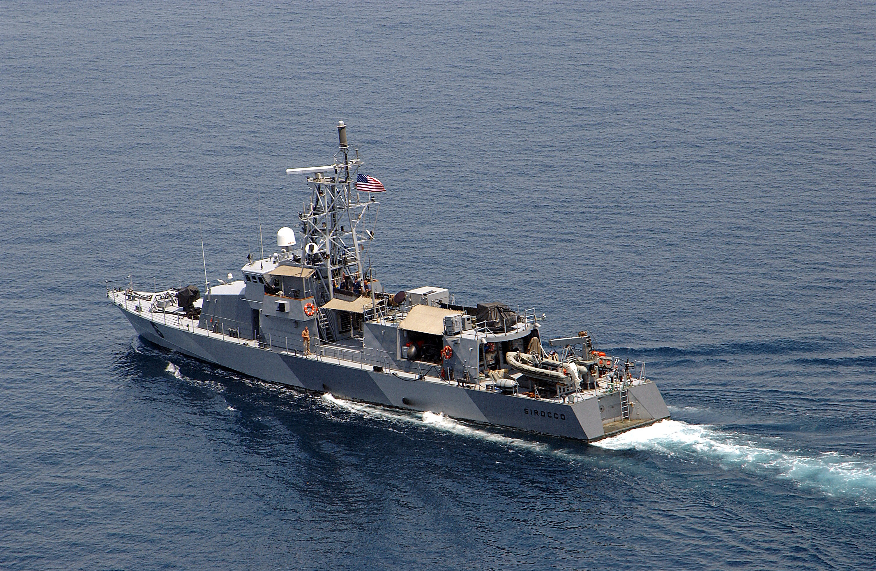 Persian Gulf (Apr. 13, 2005) — The Cyclone-class patrol coastal boat USS Sirocco (PC-6) speeds north to provide support in conjunction with Maritime Security Operations in the Northern Persian Gulf. U.S. and Coalition forces plan and execute maritime security operations (MSO) to deny terrorists use of the maritime environment in the Northern Persian Gulf. MSO's have a multi-layered security posture utilizing a variety of assets to detect, disrupt and destroy terrorist attempts to harm the infrastructure of Iraq. This includes the security and normalization of commercial shipping into and out of Iraq and the Khor Al Amaya and Al Basrah Oil Terminals.